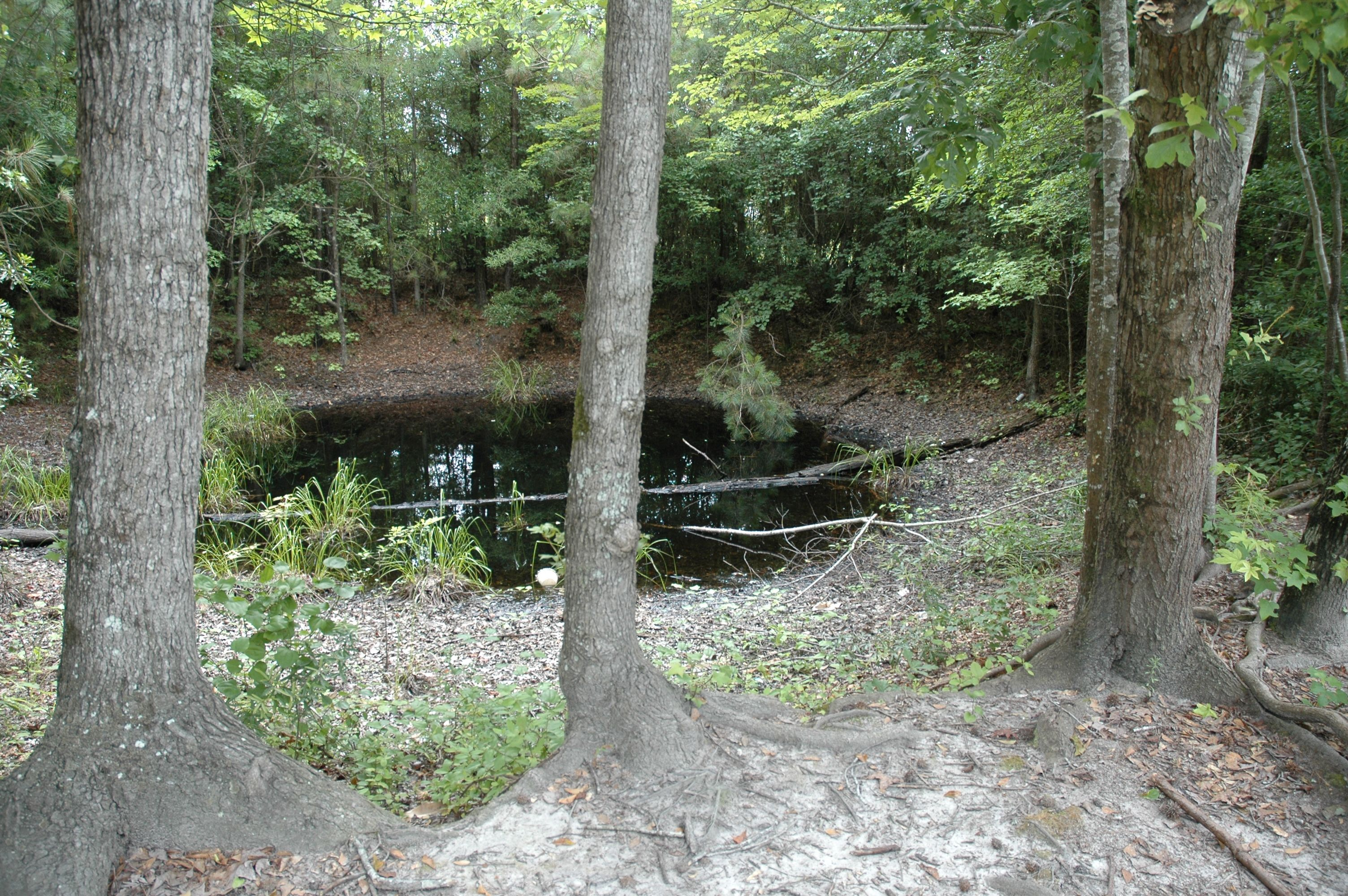 Mars Bluff, South Carolina